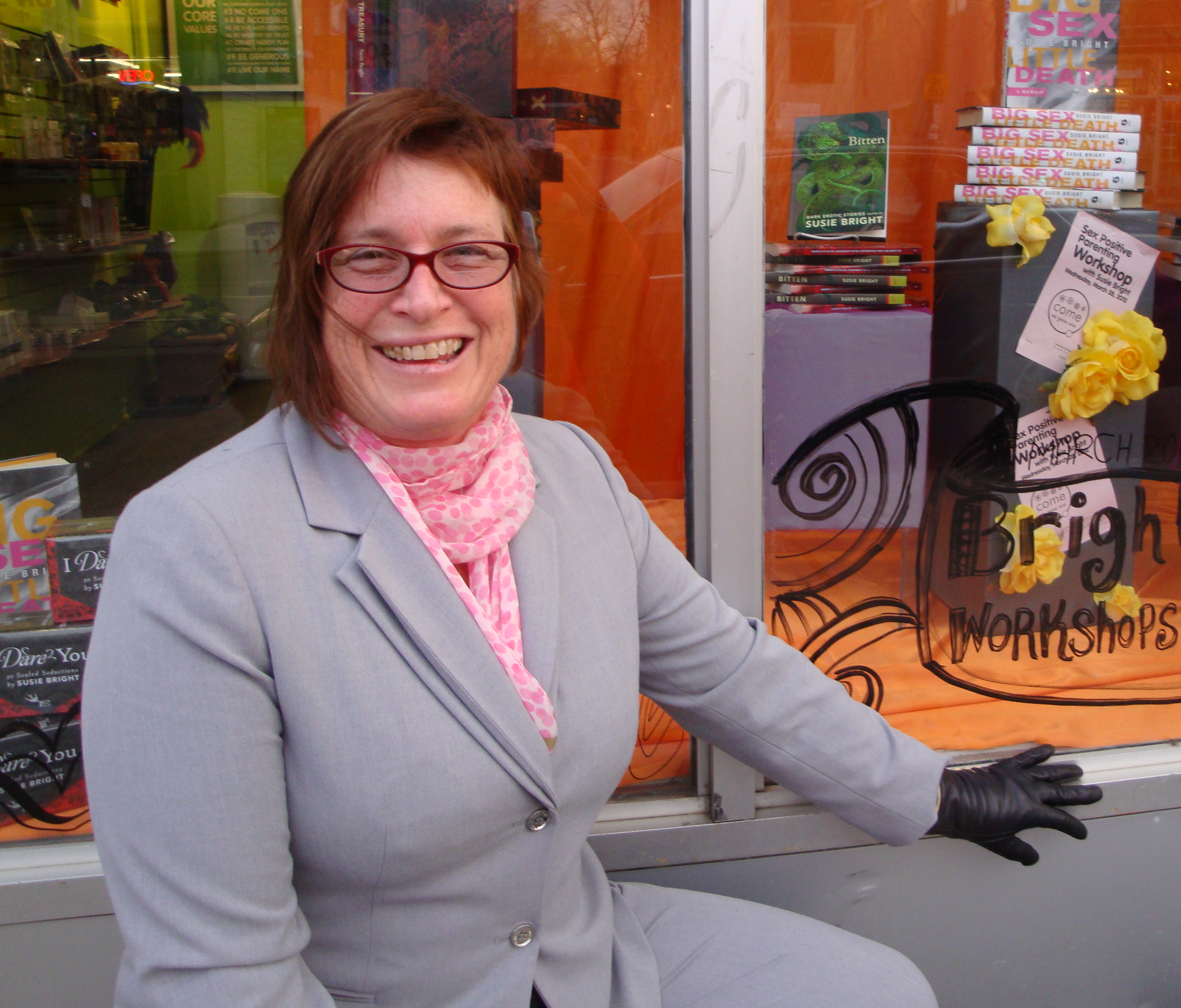 Susie Bright at Come As You Are Co-operative 493 Queen Street West (Spadina) Toronto ON M5V 2B4 Canada